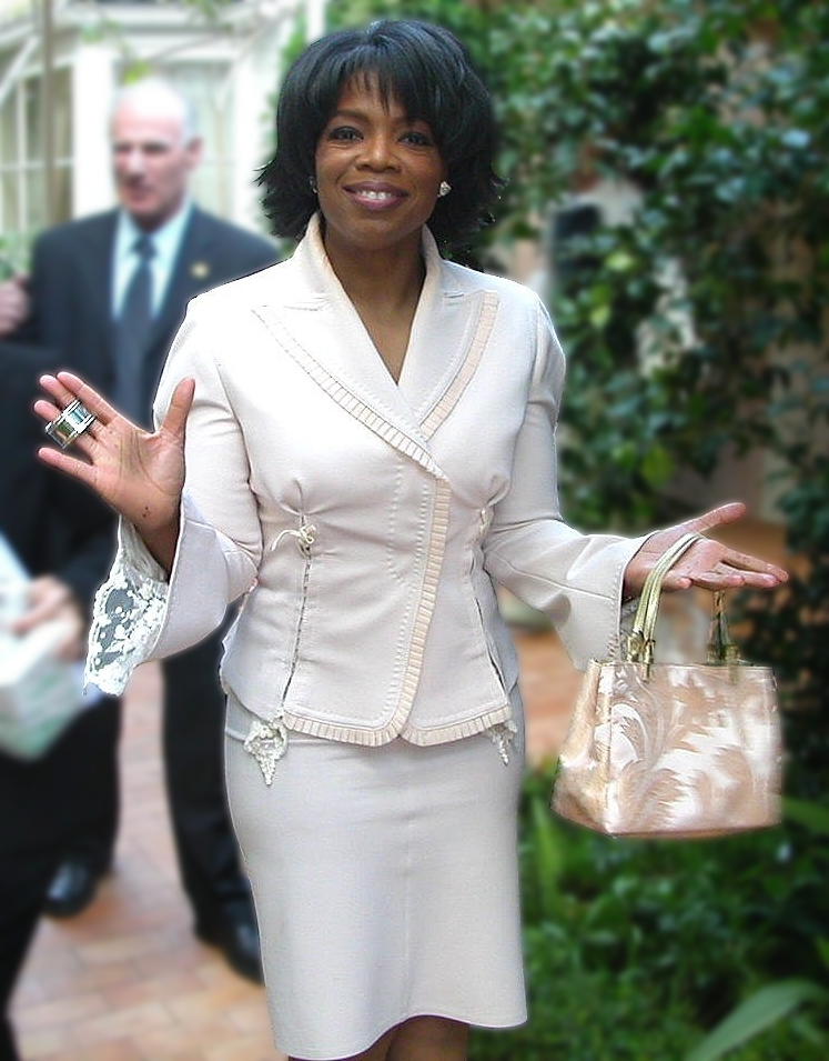 Oprah Winfrey at the Hotel Bel Air in Los Angeles during one of her 50th birthday celebrations. Original caption: "I was staying at the Hotel Bel-Air in January, 2004 when Oprah was coincidentally having one of her 50th birthday celebrations. She was very nice to pose for me, and I wished her a happy birthday."